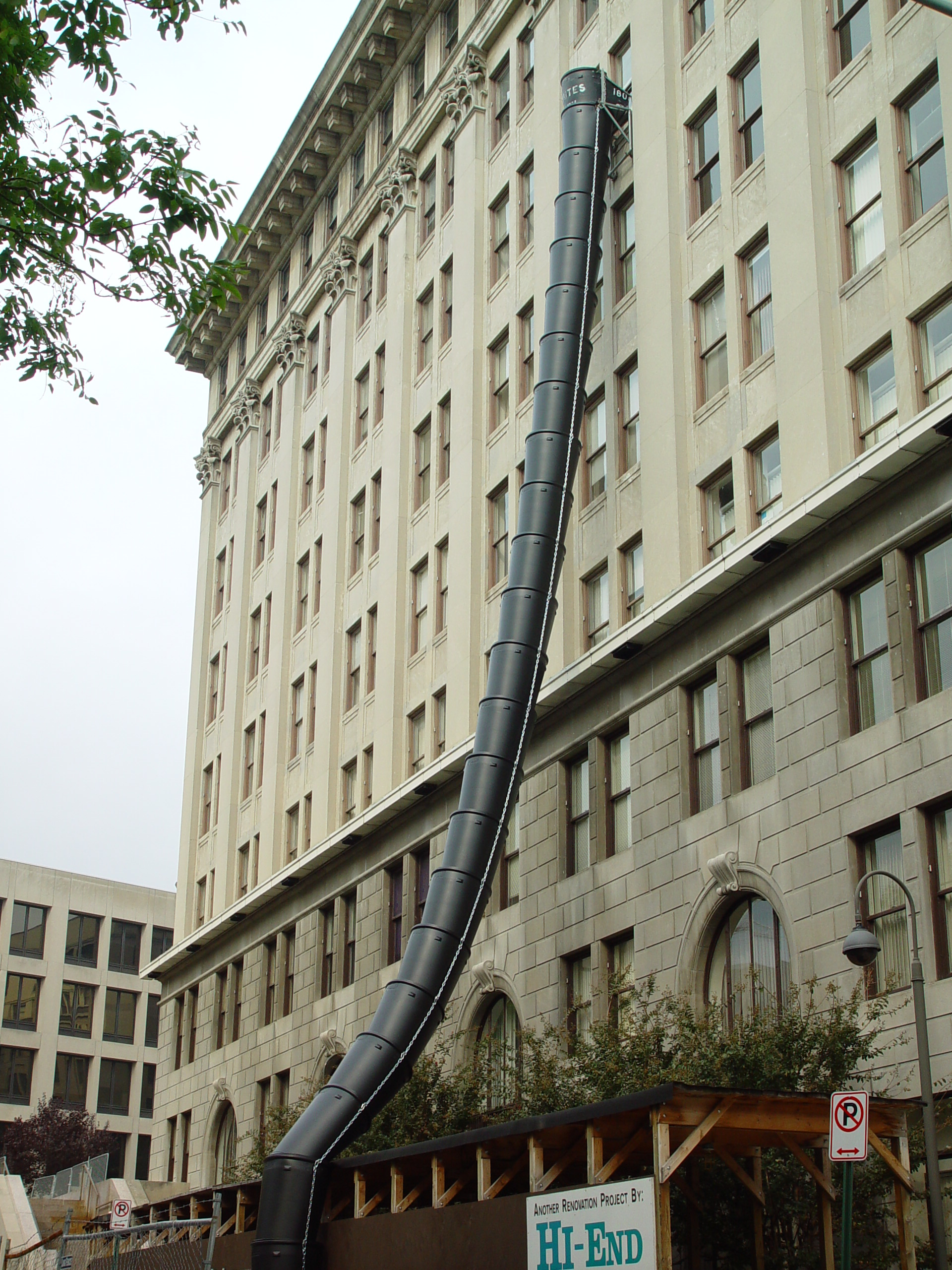 DURACHUTE Plastic debris chute